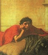 Crop (head and shoulders) of a painting of the Emperor Nero: "The remorse of the Emperor After the Murder of his Mother"